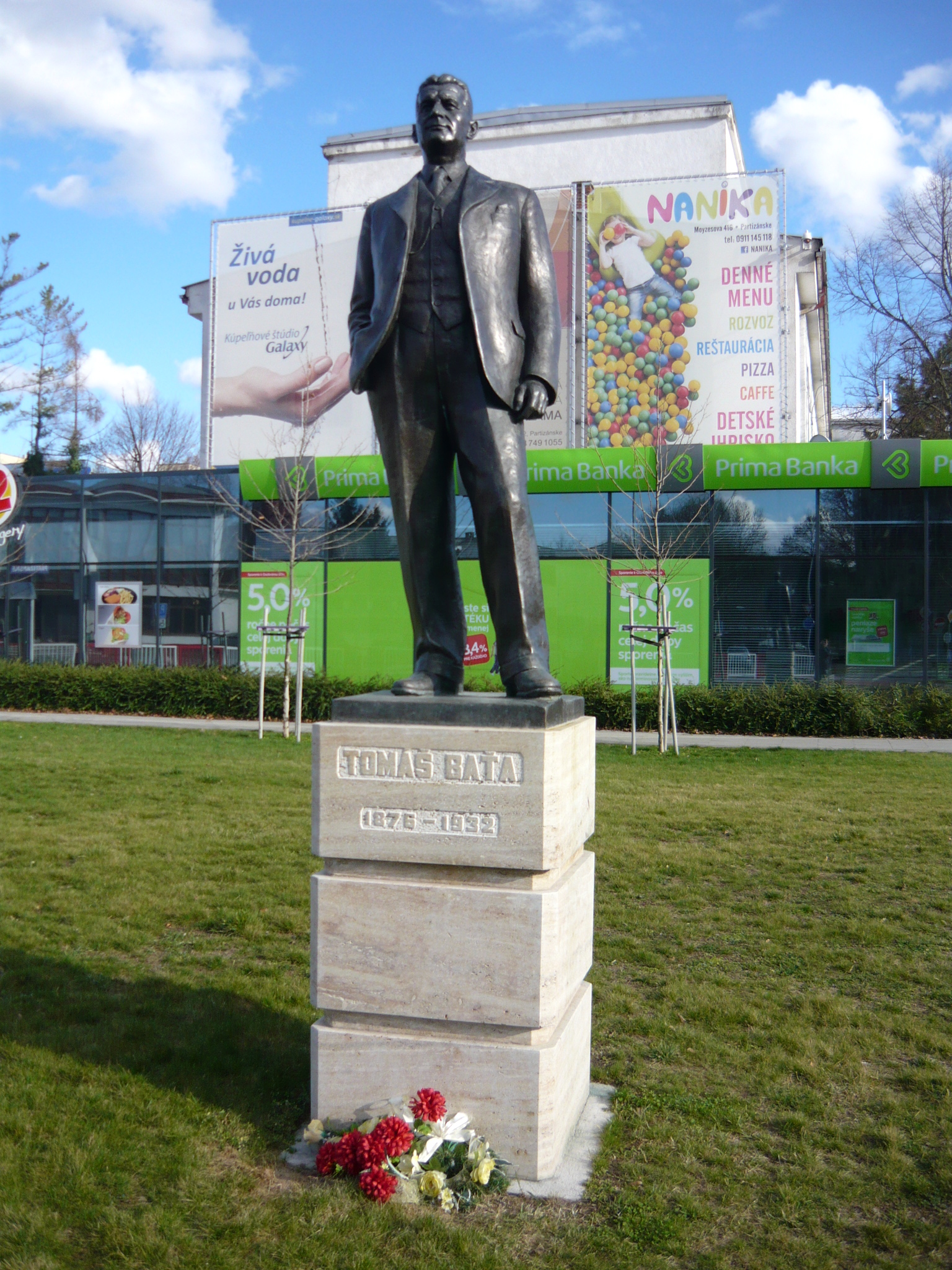 Statue of Tomáš Baťa in Partizánske, Slovakia.